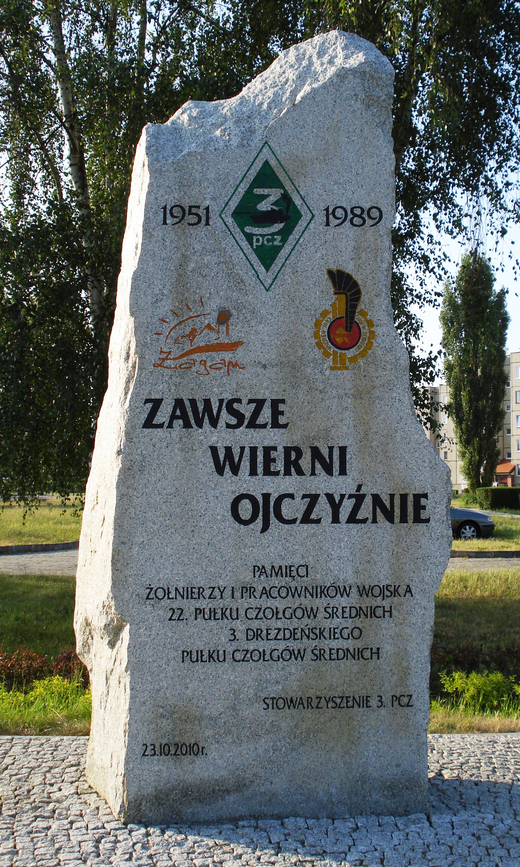 "Zawsze Wierni Ojczyźnie". Pomnik poświęcony pamięci żołnierzy i pracowników wojska 22 Pułku Czołgów Średnich i 3 Drezdeńskiego Pułku Czołgów Średnich. Pomnik stoi w Żaganiu na Placu im. 3 Drezdeńskiego Pułku Czołgów Średnich. Odsłonięcia pomnika dokonano 21 października 2010 roku, w ramach obchodów 60. lecia powstania Pułku.